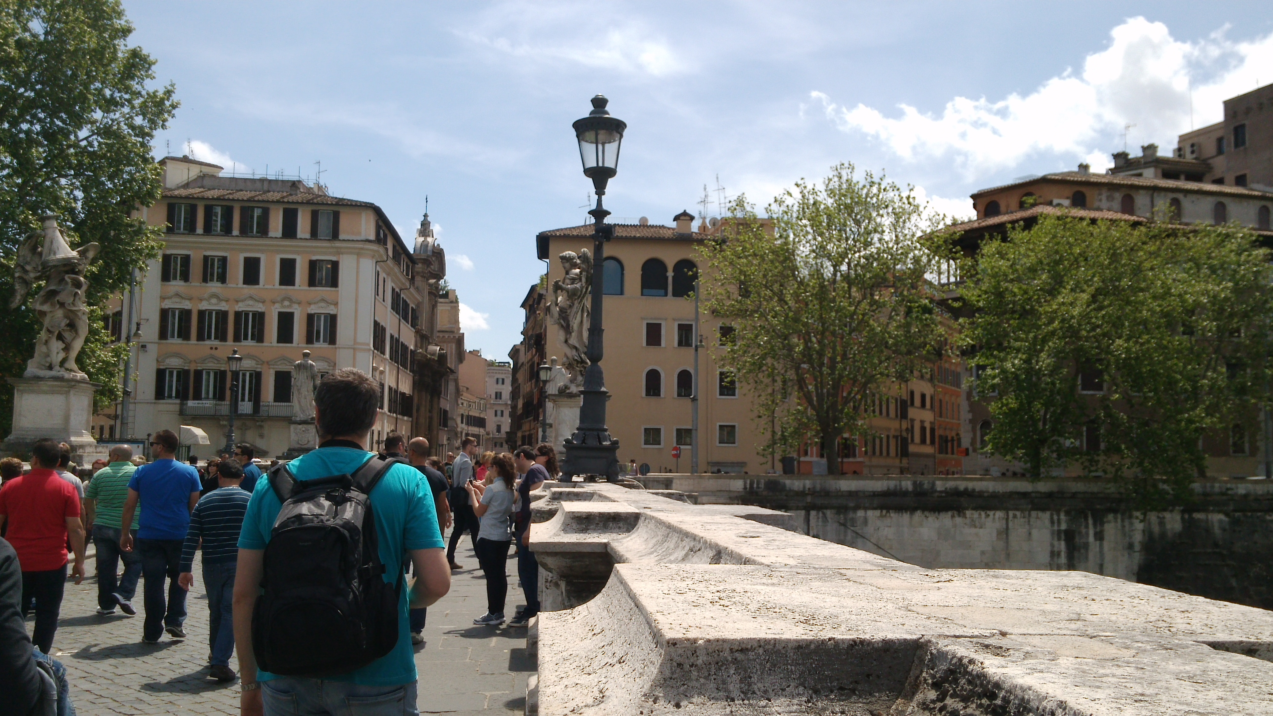 Rome along the Tiber river